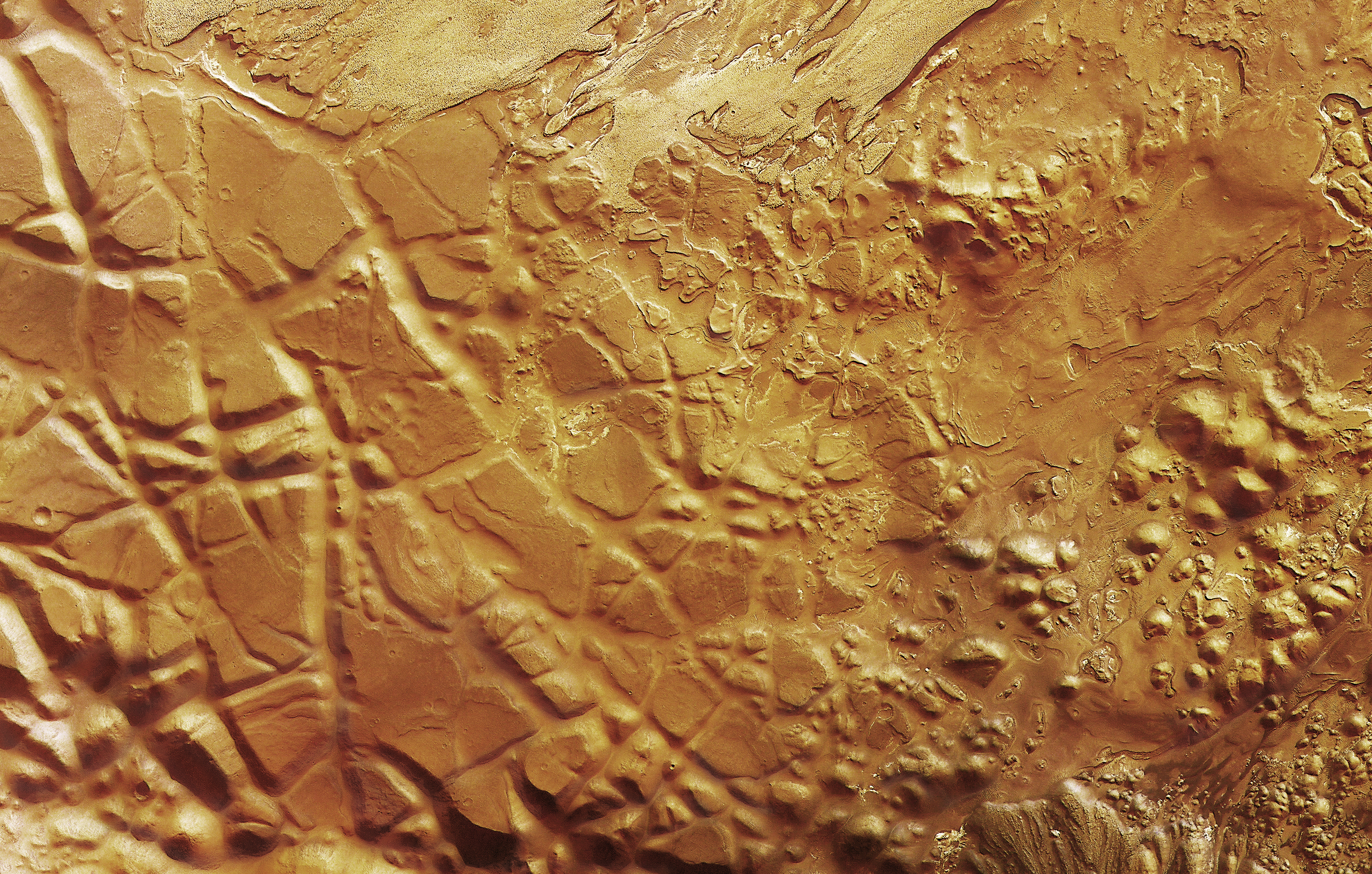 A part of Aram Chaos on Mars imaged by the HRSC instrument aboard Mars Express.